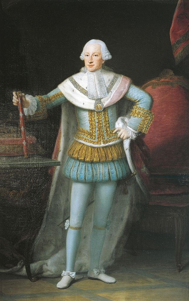 Portrait of Victor Amadeus III of Sardinia (1726-1796)